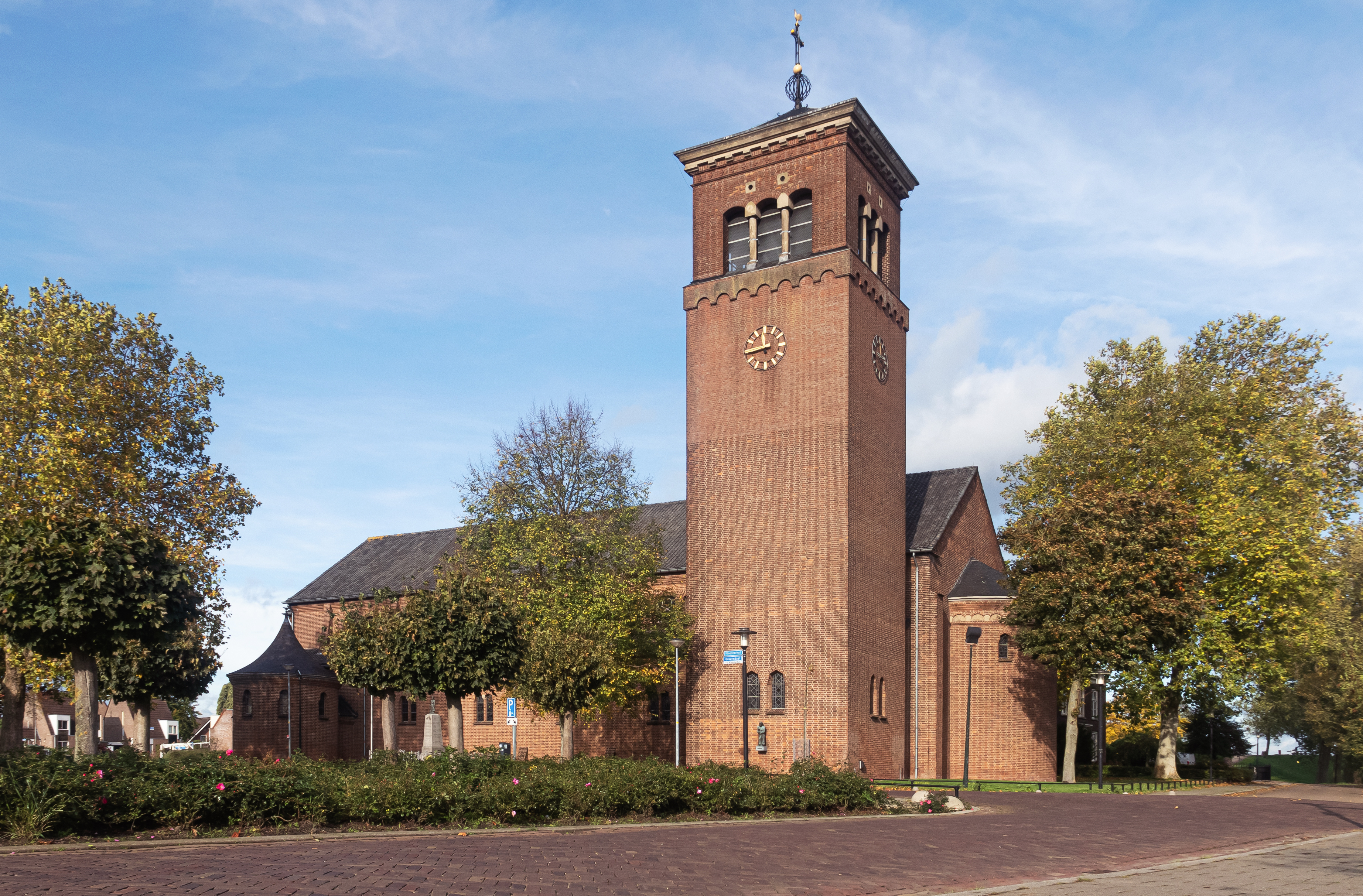 Deest, catholic church